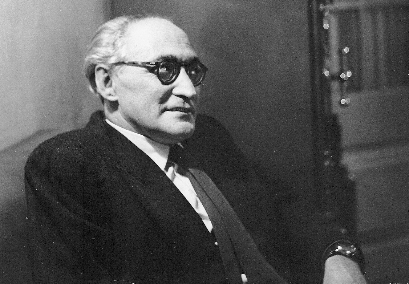 Fernando Monteiro de Castro Soromenho (Portuguese and Angolan writer)